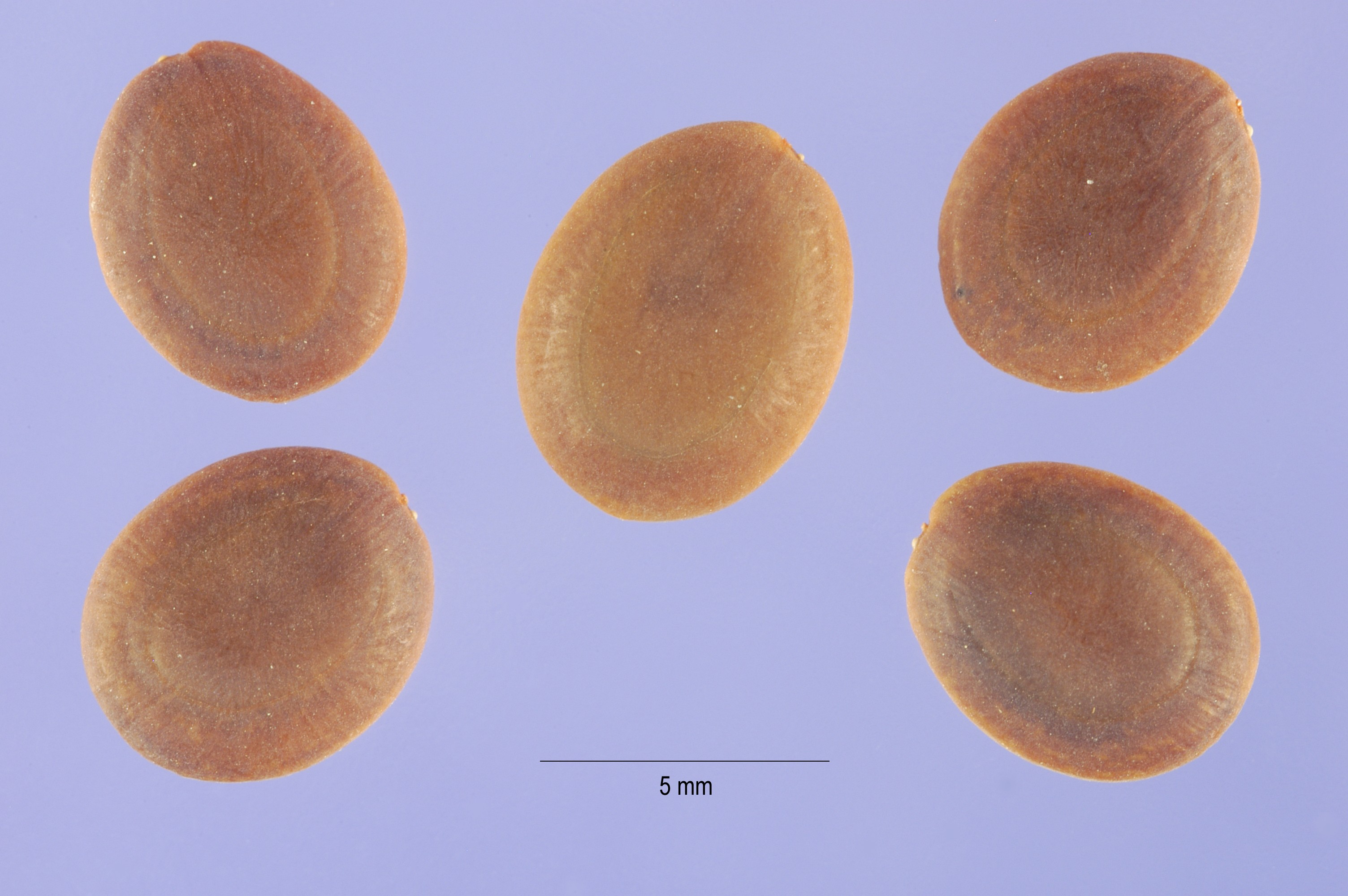 Tall Albizia. Family Malvaceae. Seeds. Collected in India.